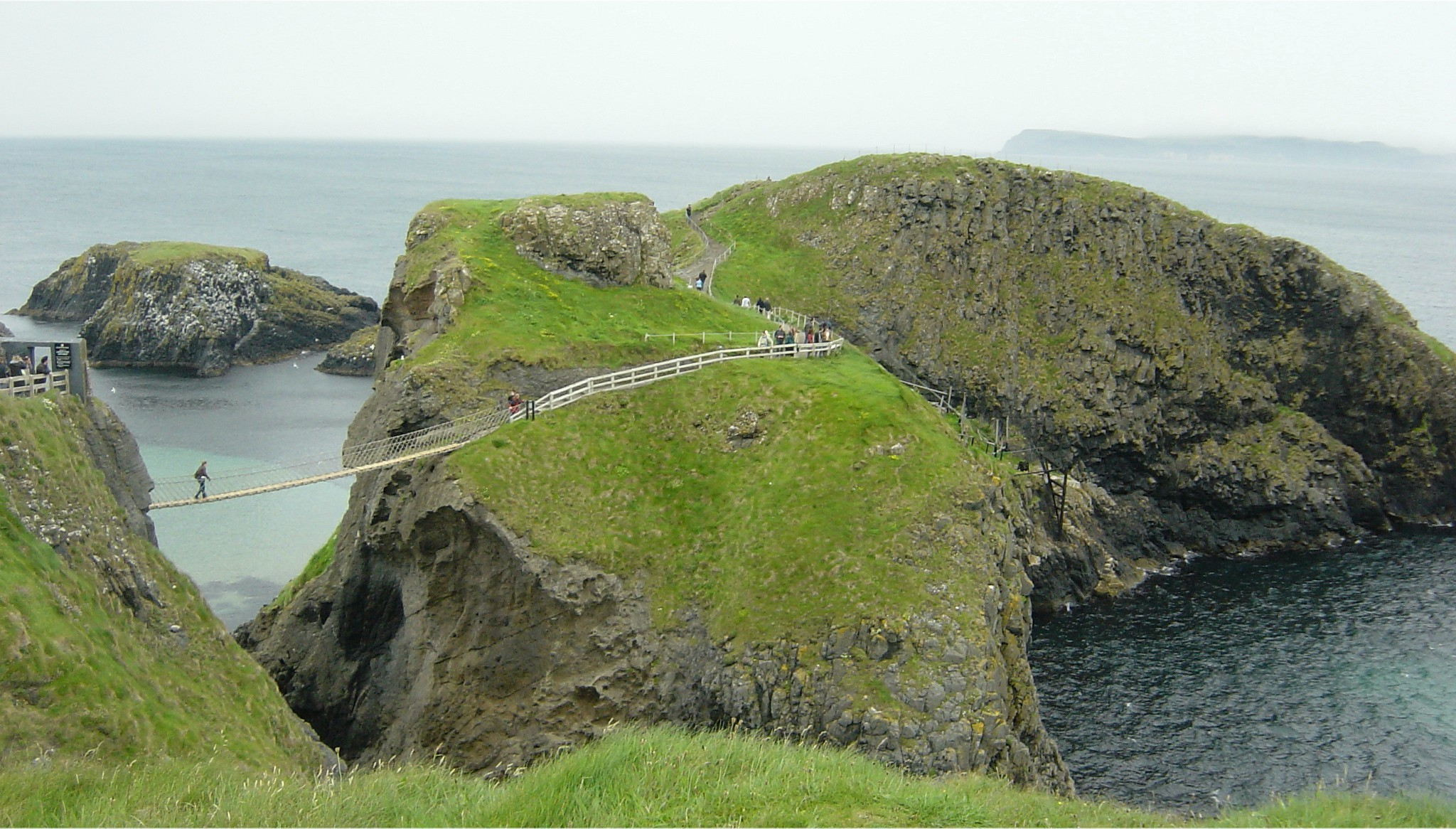 Carrick-a-Rede Rope Bridge